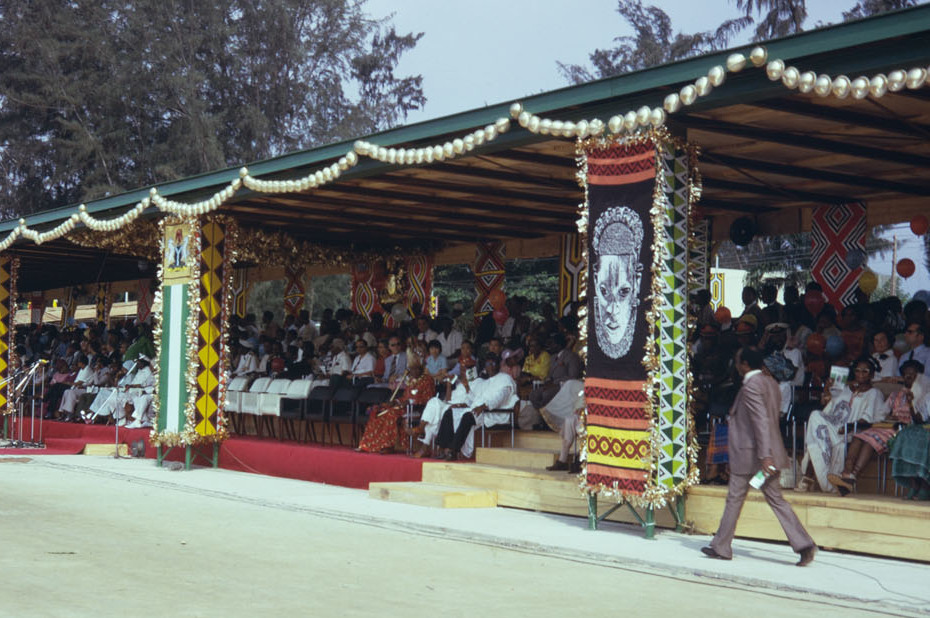 Grand Durbar in Kaduna State in the occasion of Black and African Festival of Arts and Culture, 15. january - 12. february. Accession number/ Diaarinumero Rd4.4:1 Photo by Helinä Rautavaara, 1977 Helinä Rautavaara museum Contact/ Ota yhteyttä